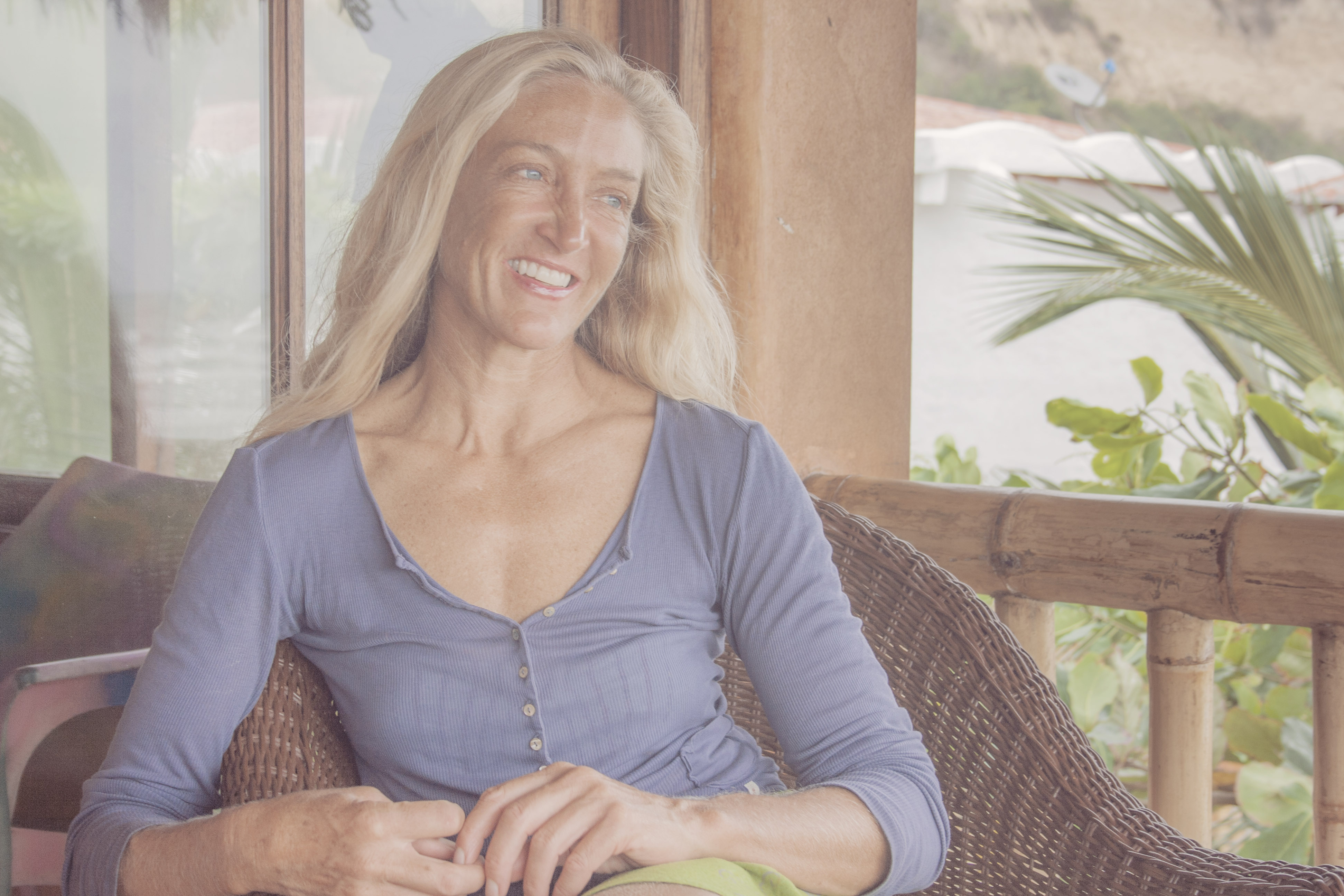 Noy Holland, 2016